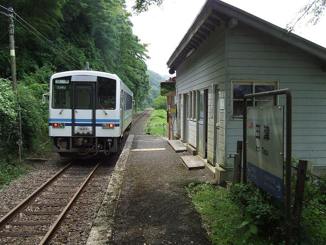 Tazu Stationn on Sanko Line